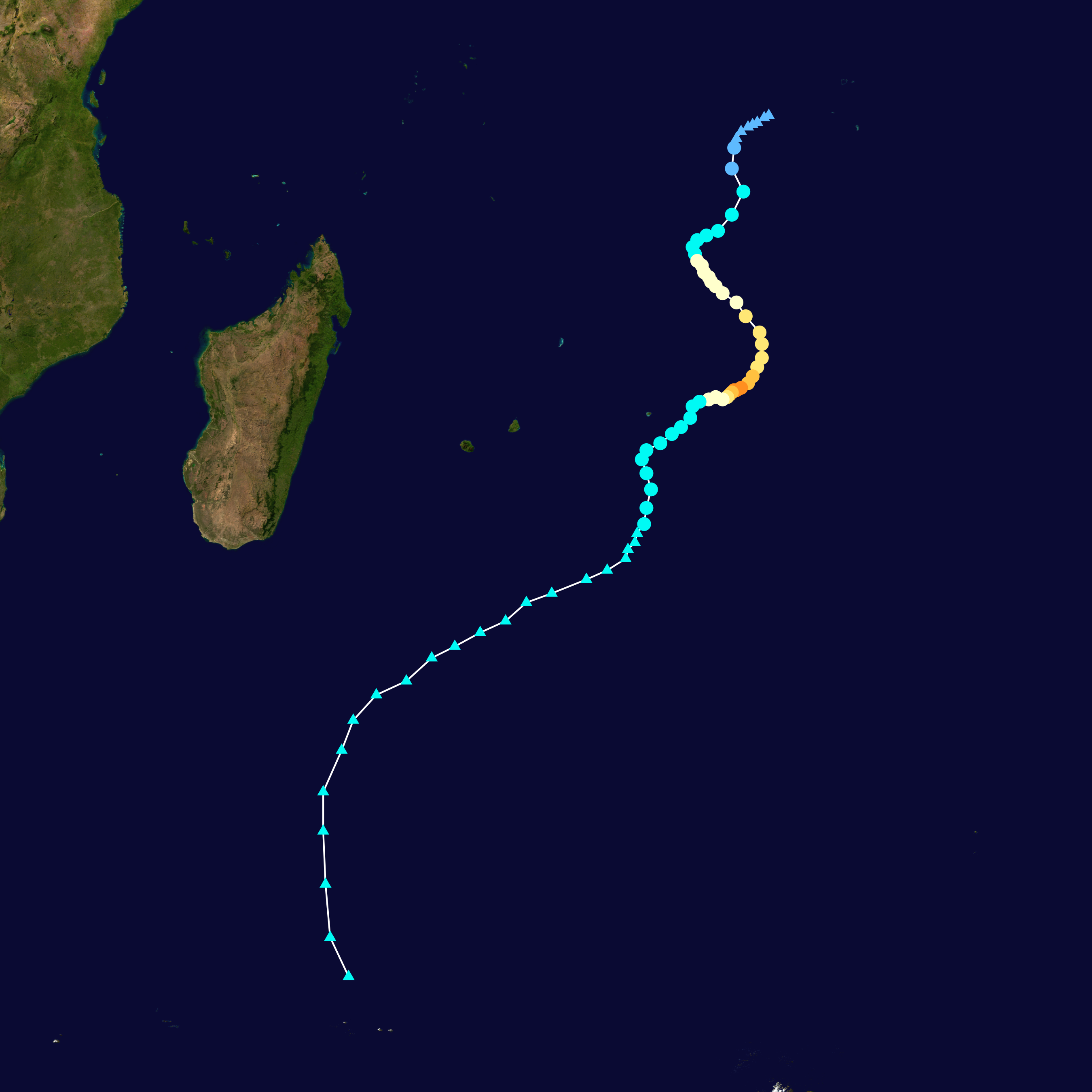 Track map of Intense Tropical Cyclone Dora of the 2006-07 South West Indian Ocean cyclone season. The points show the location of the storm at 6-hour intervals. The colour represents the storm's maximum sustained wind speeds as classified in the Saffir–Simpson scale (see below), and the shape of the data points represent the nature of the storm, according to the legend below. Saffir–Simpson scale Tropical depression≤38 mph≤62 km/h Category 3111–129 mph178–208 km/h Tropical storm39–73 mph63–118 km/h Category 4130–156 mph209–251 km/h Category 174–95 mph119–153 km/h Category 5≥157 mph≥252 km/h Category 296–110 mph154–177 km/h Unknown Storm type Tropical cyclone Subtropical cyclone Extratropical cyclone / Remnant low / Tropical disturbance / Monsoon depression